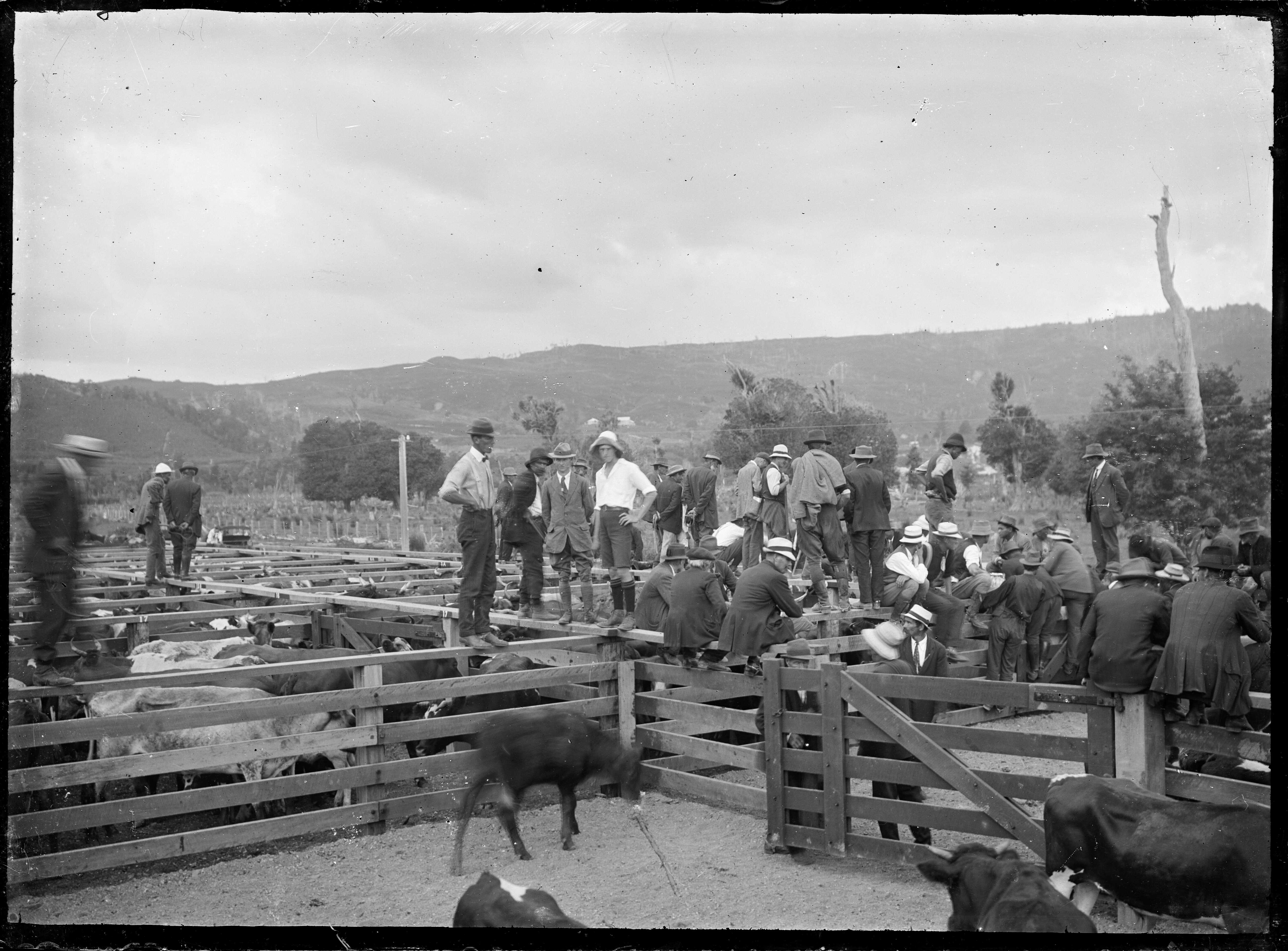 View of farmers at the opening of the new saleyards at Rangiahua. Many of the men are standing on the rails of the cattle pens. Photograph taken by Albert Percy Godber in 1918.